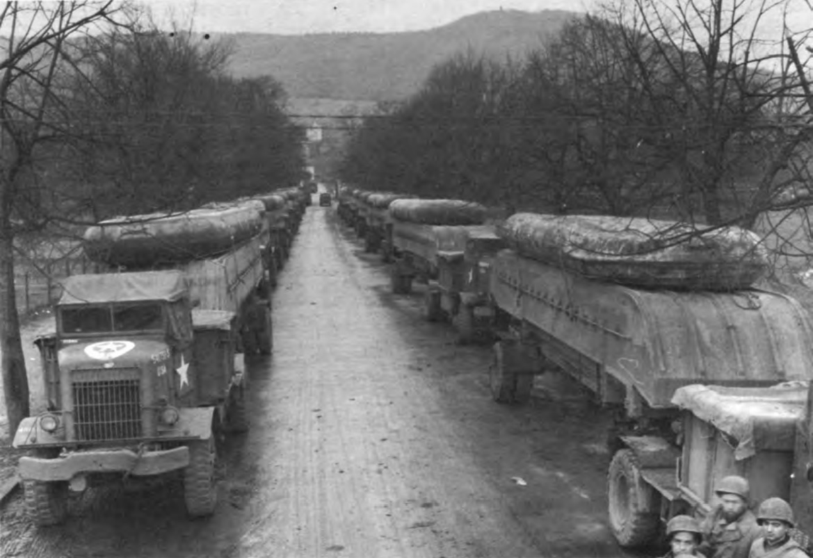 Heavy and pneumatic pontons loaded for transport to Remagen, Germany, March 1945, to replace the demolished General Ludendorff rail bridge there